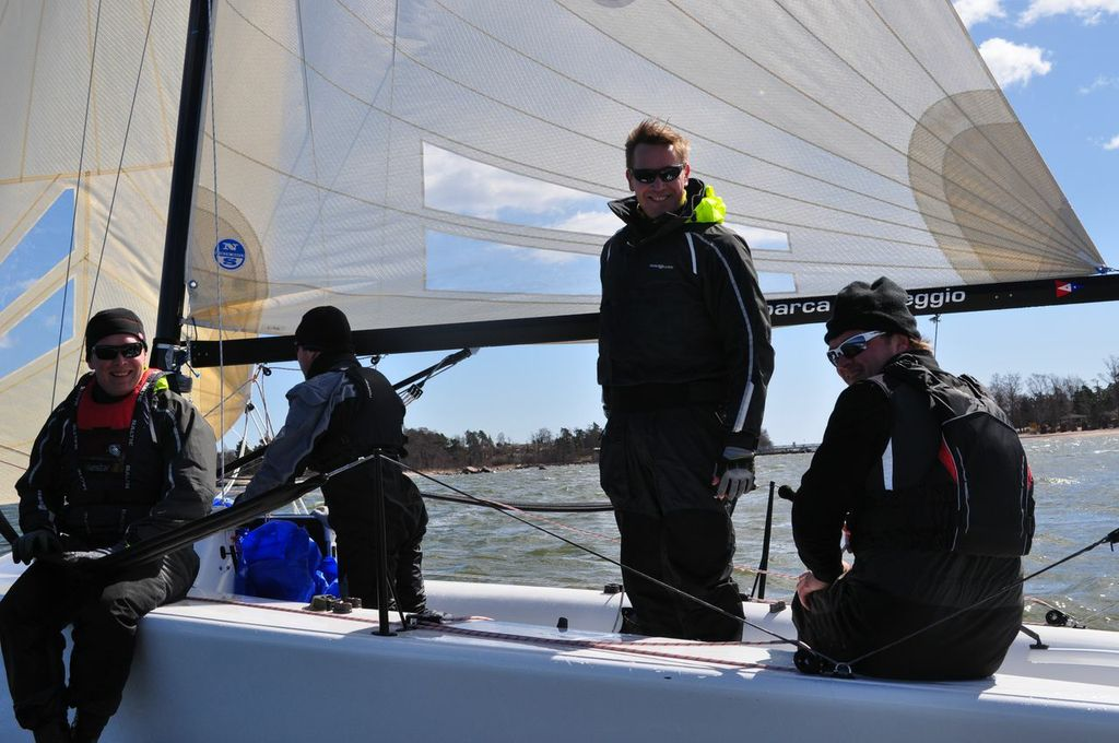 Finnish Navy Sailing team, Melges 24 -class